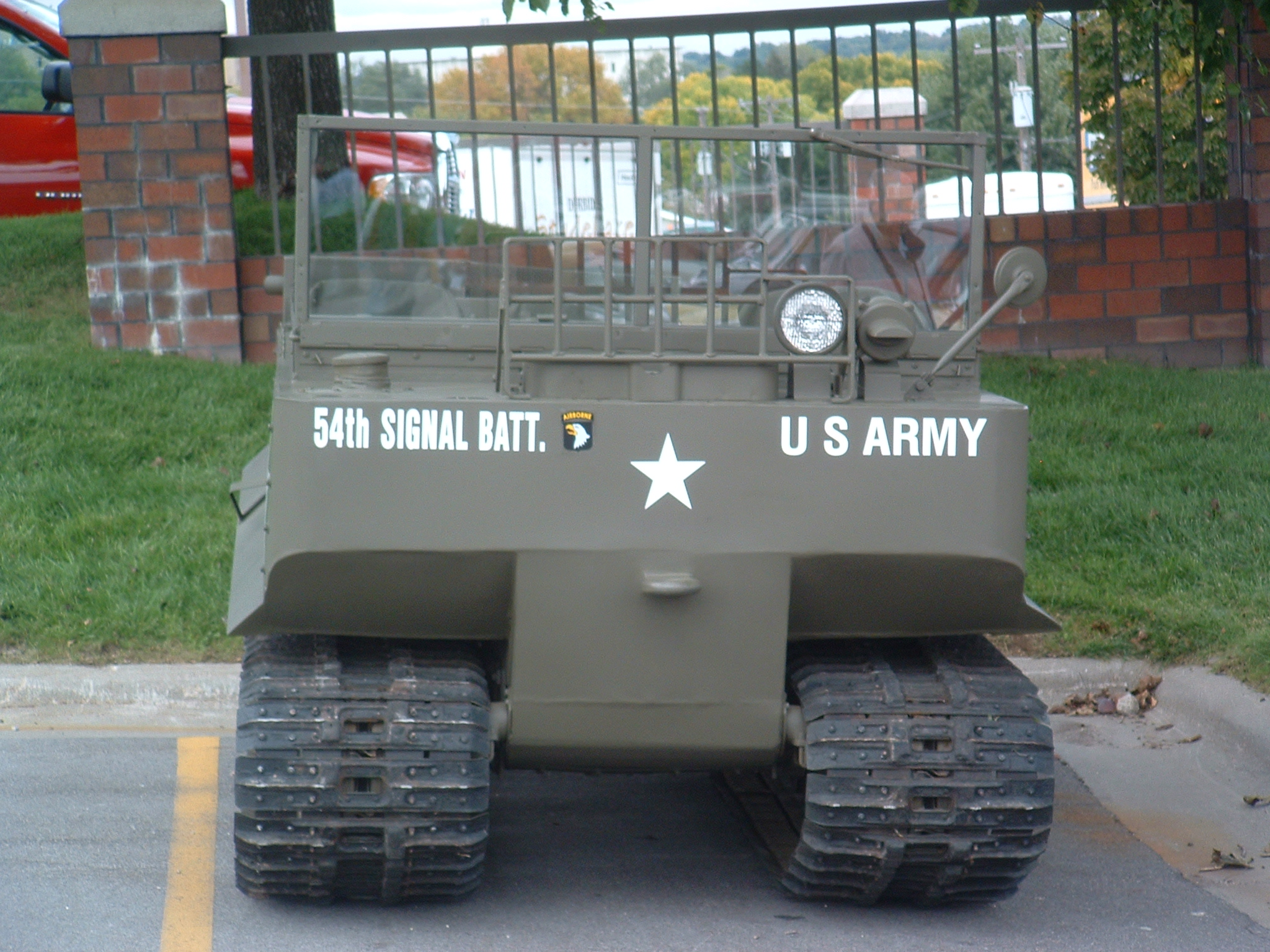 Taken at a Studebaker convention in Omaha,NE